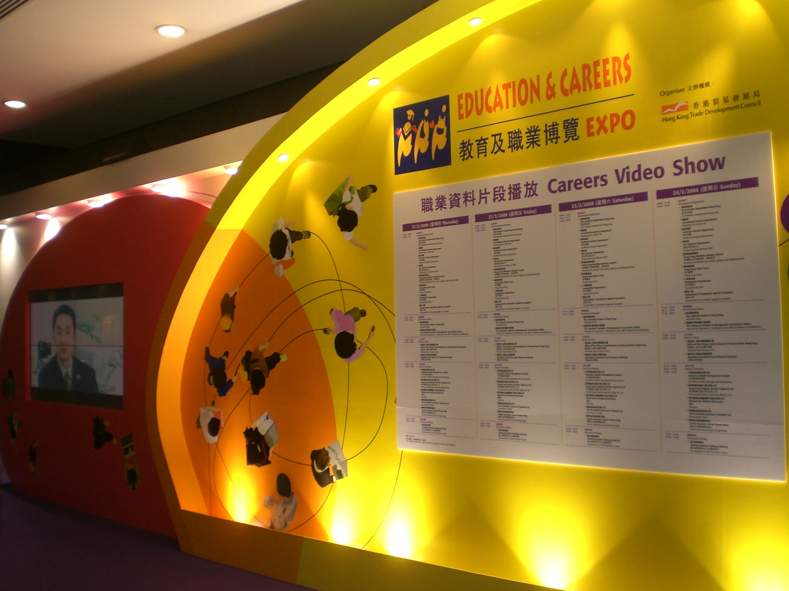 教育及職業博覽 2008年 Education & Careers Expo in HK Convention and Exhibition Centre, Wan Chai, Hong Kong.